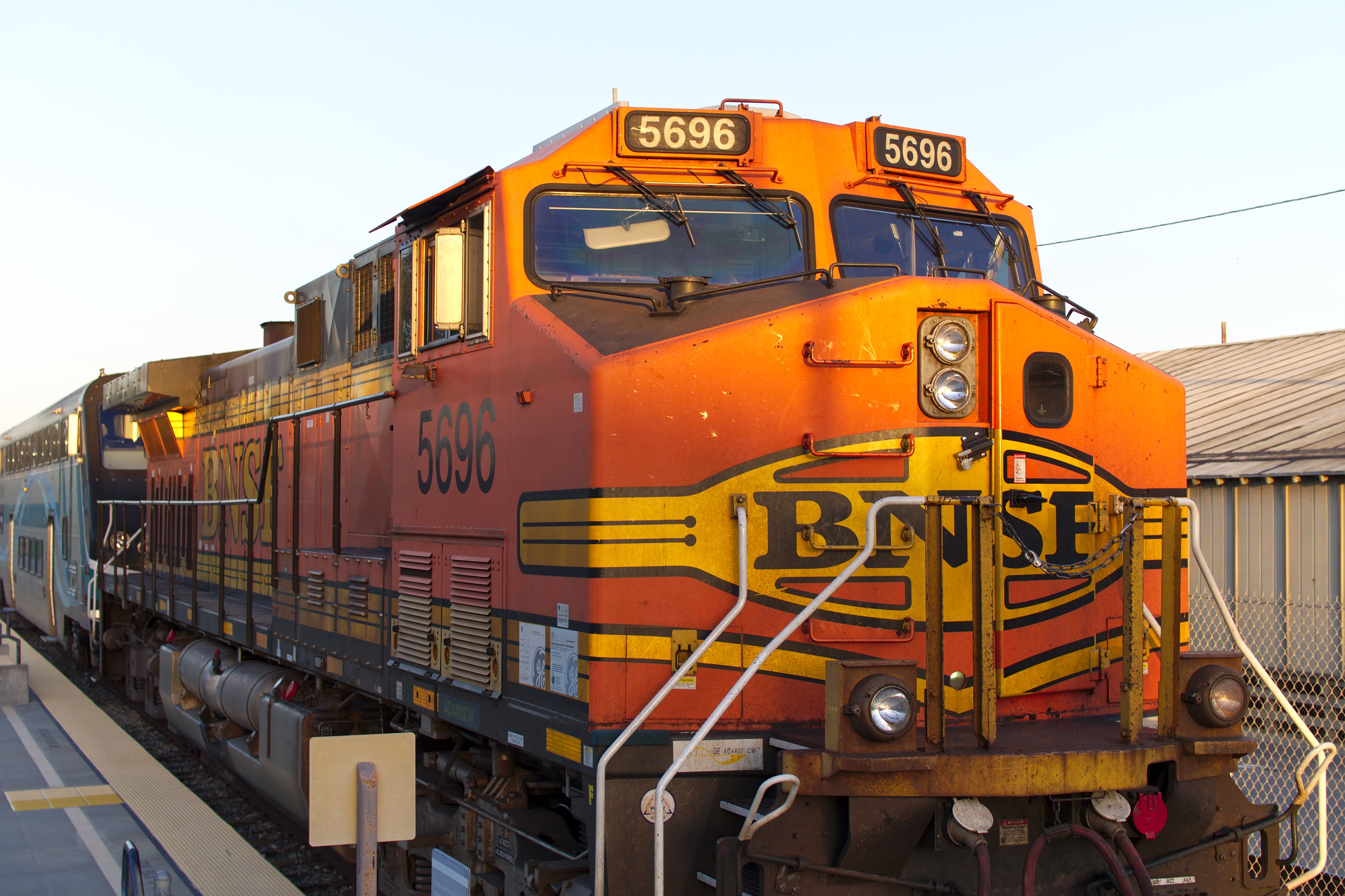 A BNSF engine pulling Metrolink at the East Ventura station as part of the Oxnard derailment aftermath.